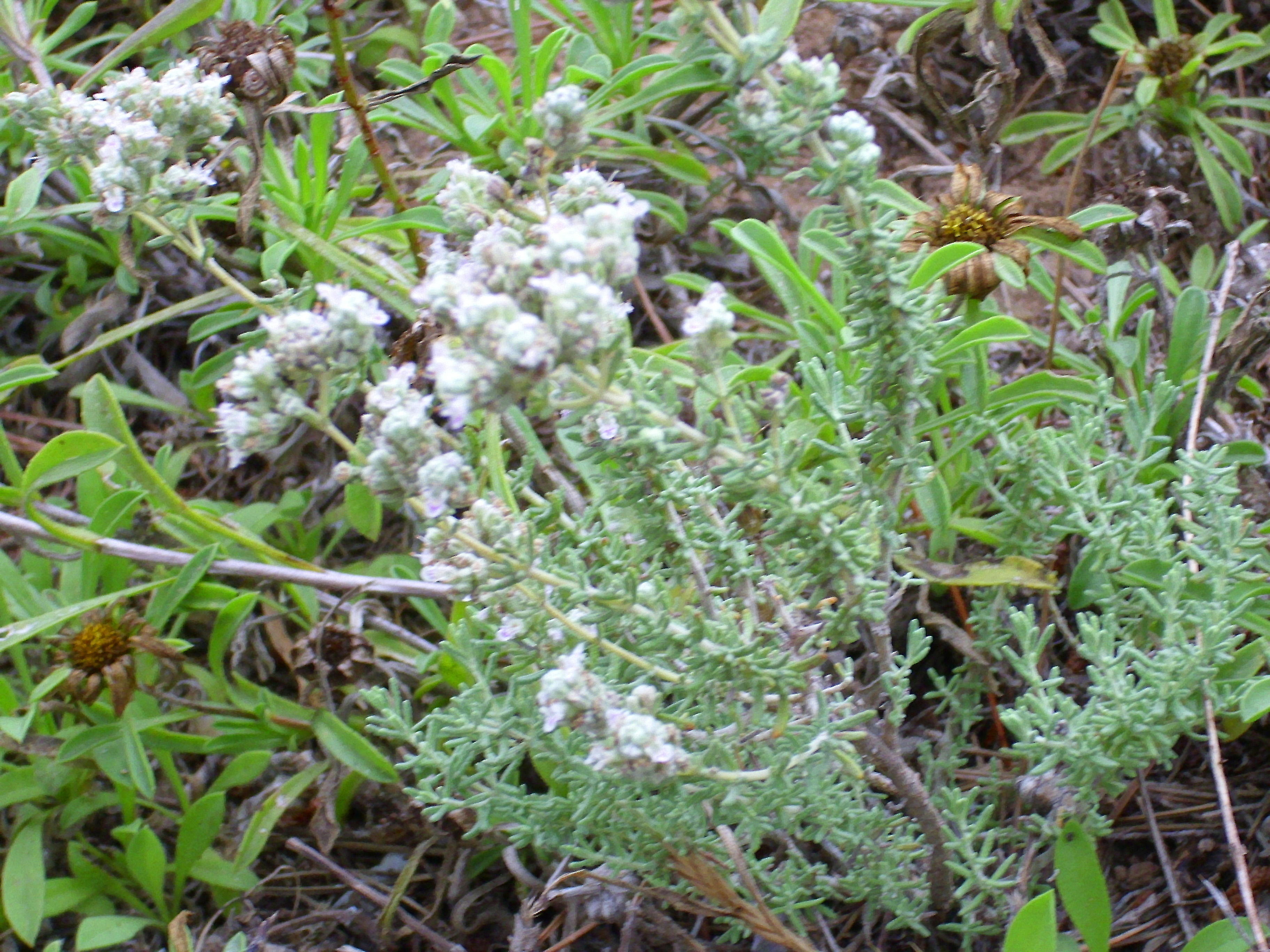 Teucrium dunense habit, La Mata, Torrevieja, Alicante, Spain.